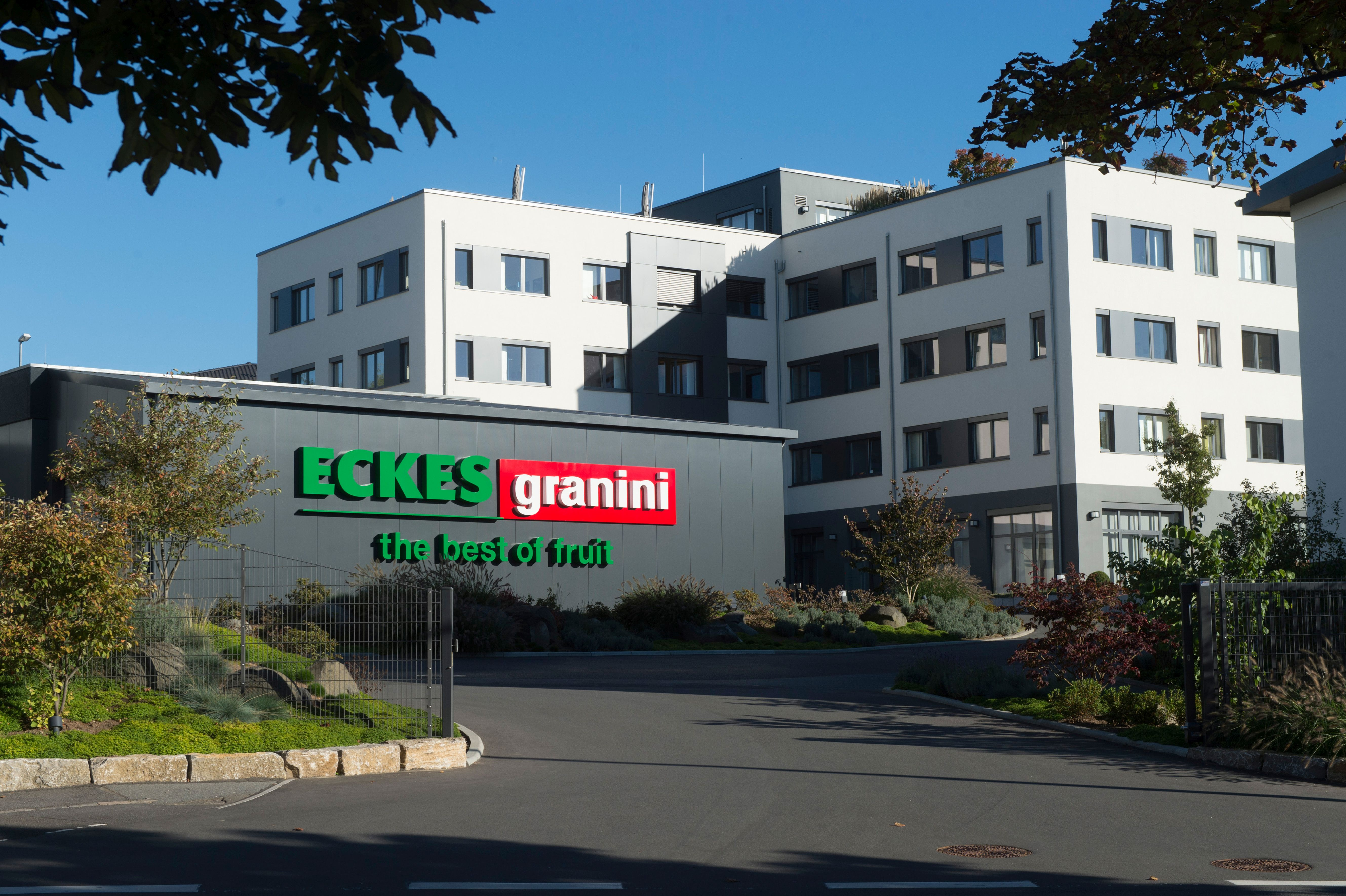 Headquarters of Eckes-Granini Group GmbH, Nieder-Olm (Rheinland-Pfalz)